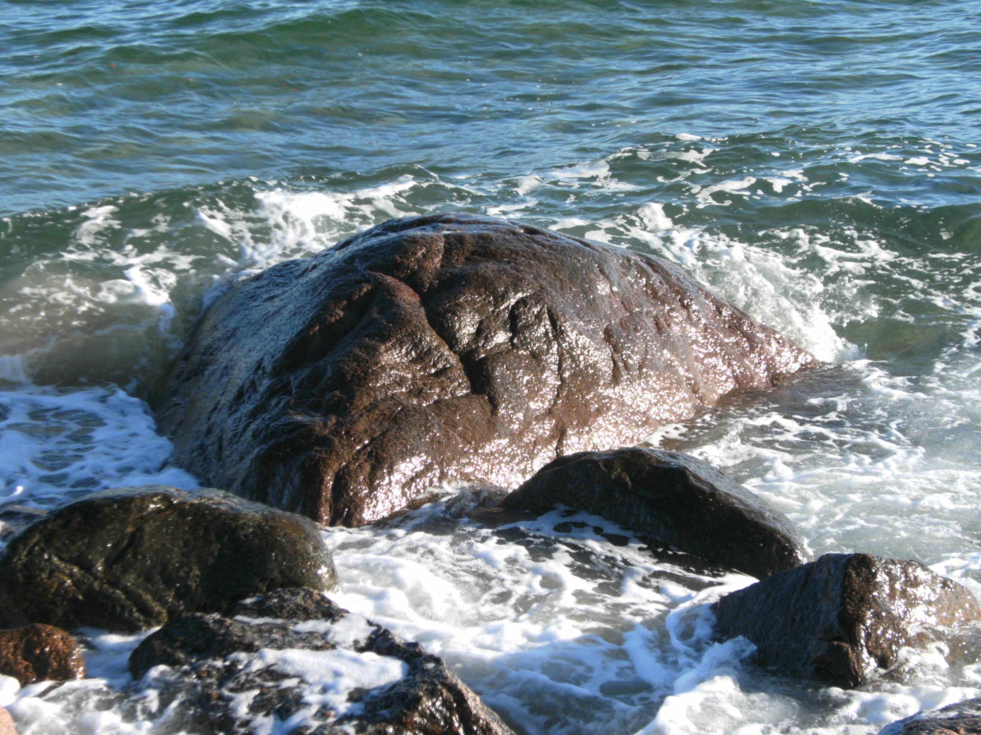 Lübeck-Travemünde, Germany at the foot path below the former public sea bath Mövenstein: Erratic block Mövenstein in November 2016.